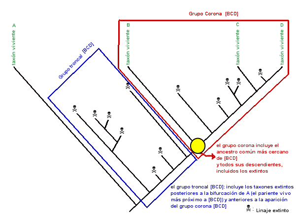 Crown group and stem group diagram (in spanish)